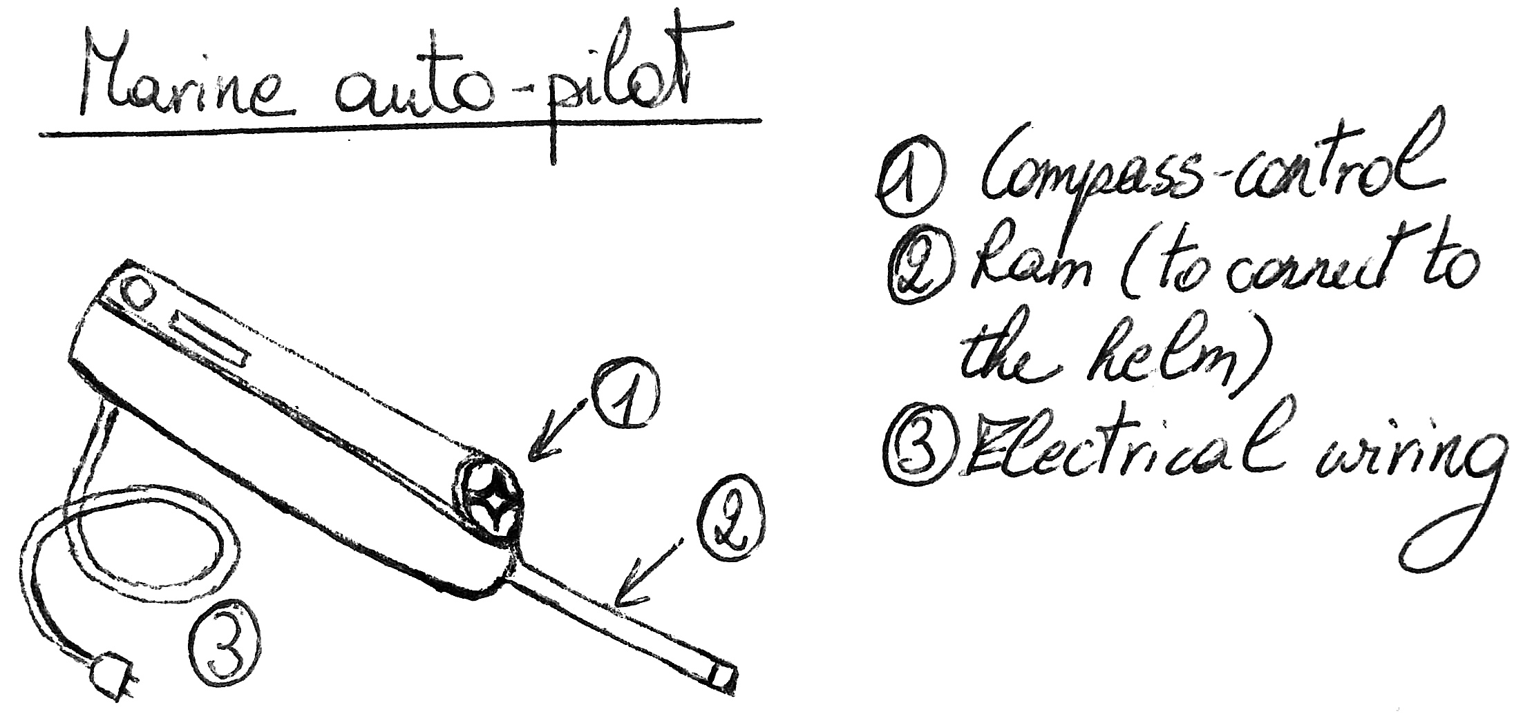 A hand-drawn picture of a marine electronic autopilot, drawn after a model from within the book "The Sailors Handbook" by Halsey C. Herreshoff.